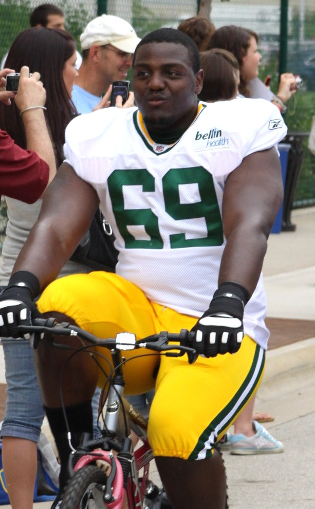 Green Bay Packer Chris Campbell riding a fan's bicycle at pre-season training camp, Green Bay Wisconsin, August 1, 2011